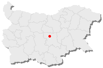 Map of Bulgaria, the red point is the position of Kazanluk.